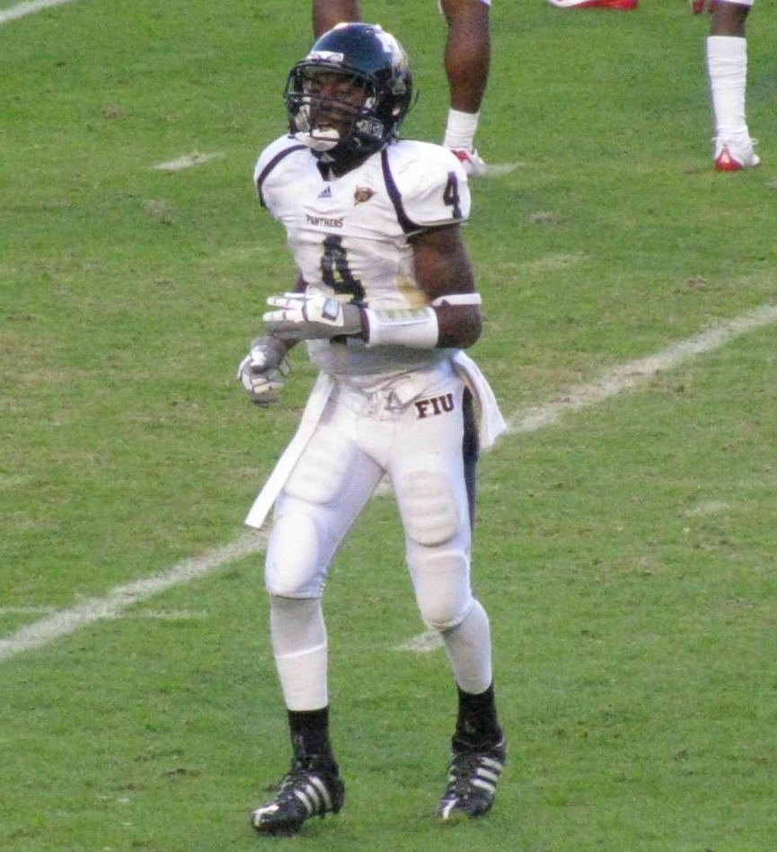 T.Y. Hilton coming off the field in the 2008 Shula Bowl, taken from the crowd in Sun Life stadium.